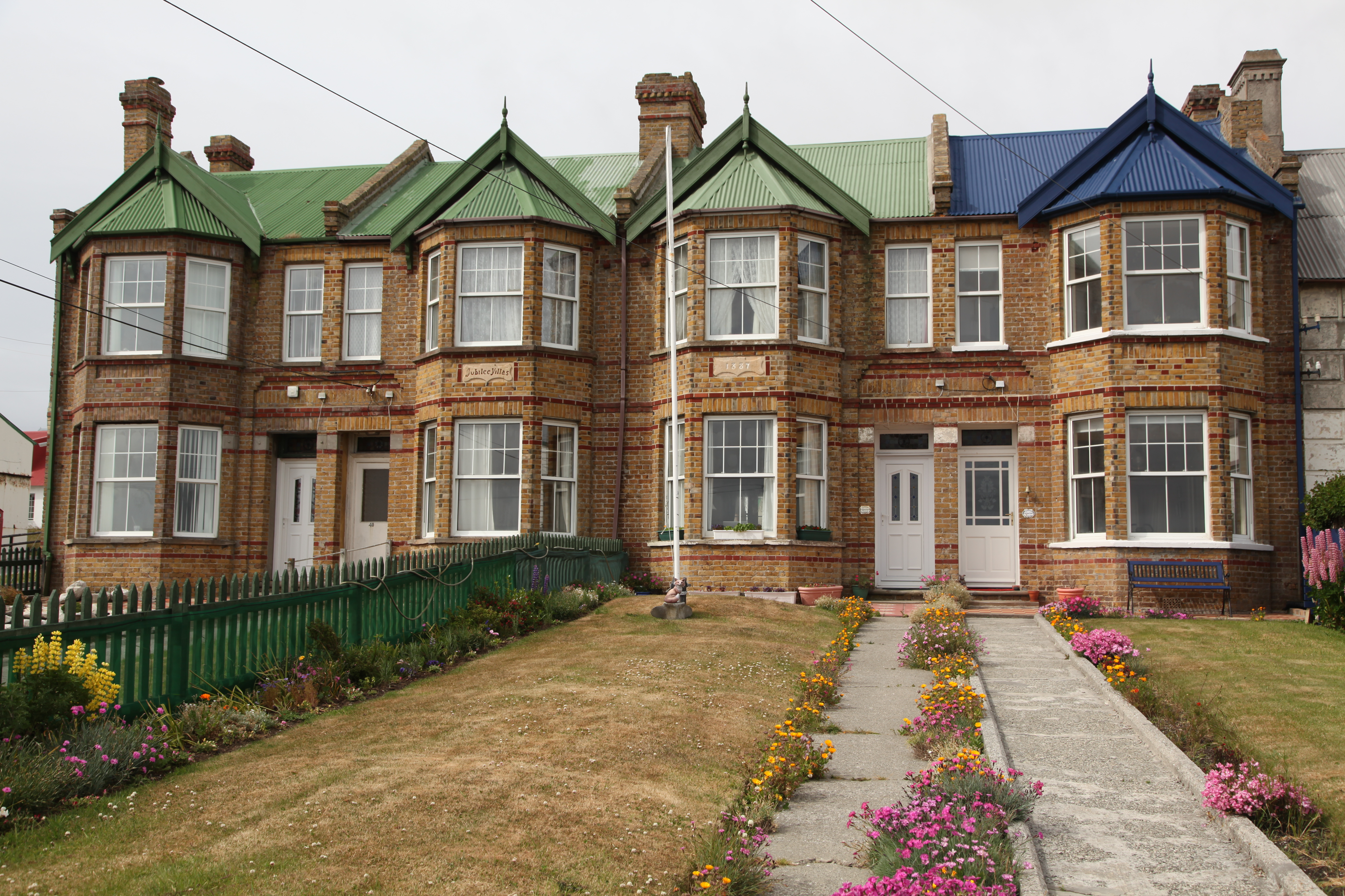 Townhouses built in 1887 in Stanley, Falkland Islands.